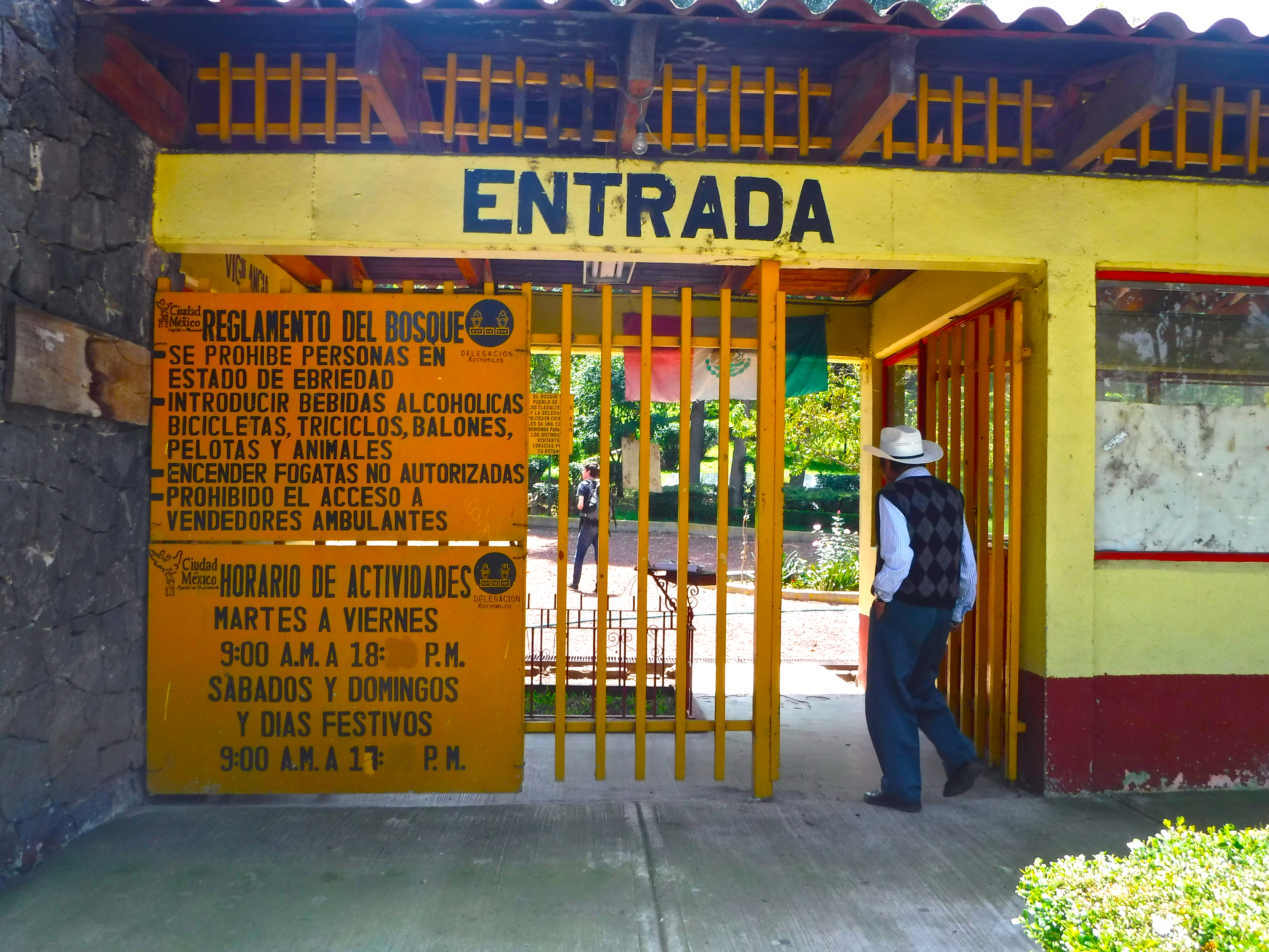 This peaceful park is located in the heart of the neighborhood, Pueblo San Luis Tlaxialtemalco.